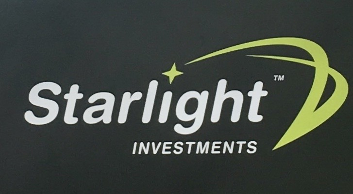 Starlight Investment's logo